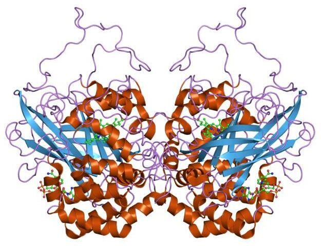 Cartoon representation of the molecular structure of protein registered with 7cat code.